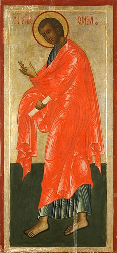 Thomas the apostle, Russian icon from first quarter of 18th cen.